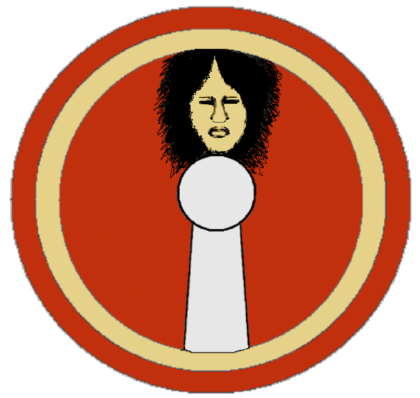 Shield pattern o.t. Invicti seniores, listed as one of auxilia palatina units in the Magister Peditum's infantry roster; it assigned to the Comes Hispenias., Notitia Dignitatum, 5th century (Bodleian Manuscript).